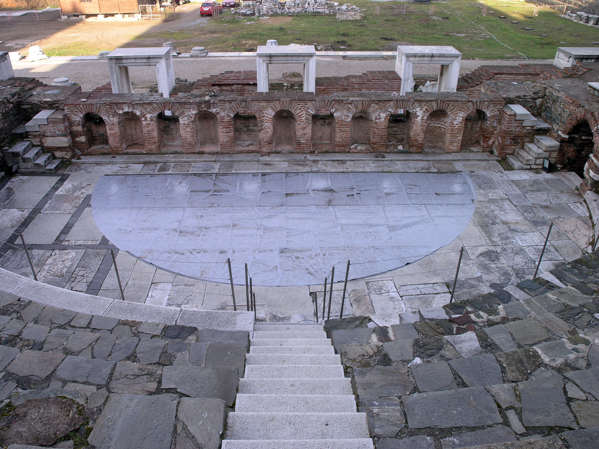 The Roman Odeum's scena in the ancient agora in Thessaloniki, seen from the East. 2nd c. AD. Photograph taken by Marsyas 09:52, 27 February 2006 (UTC)